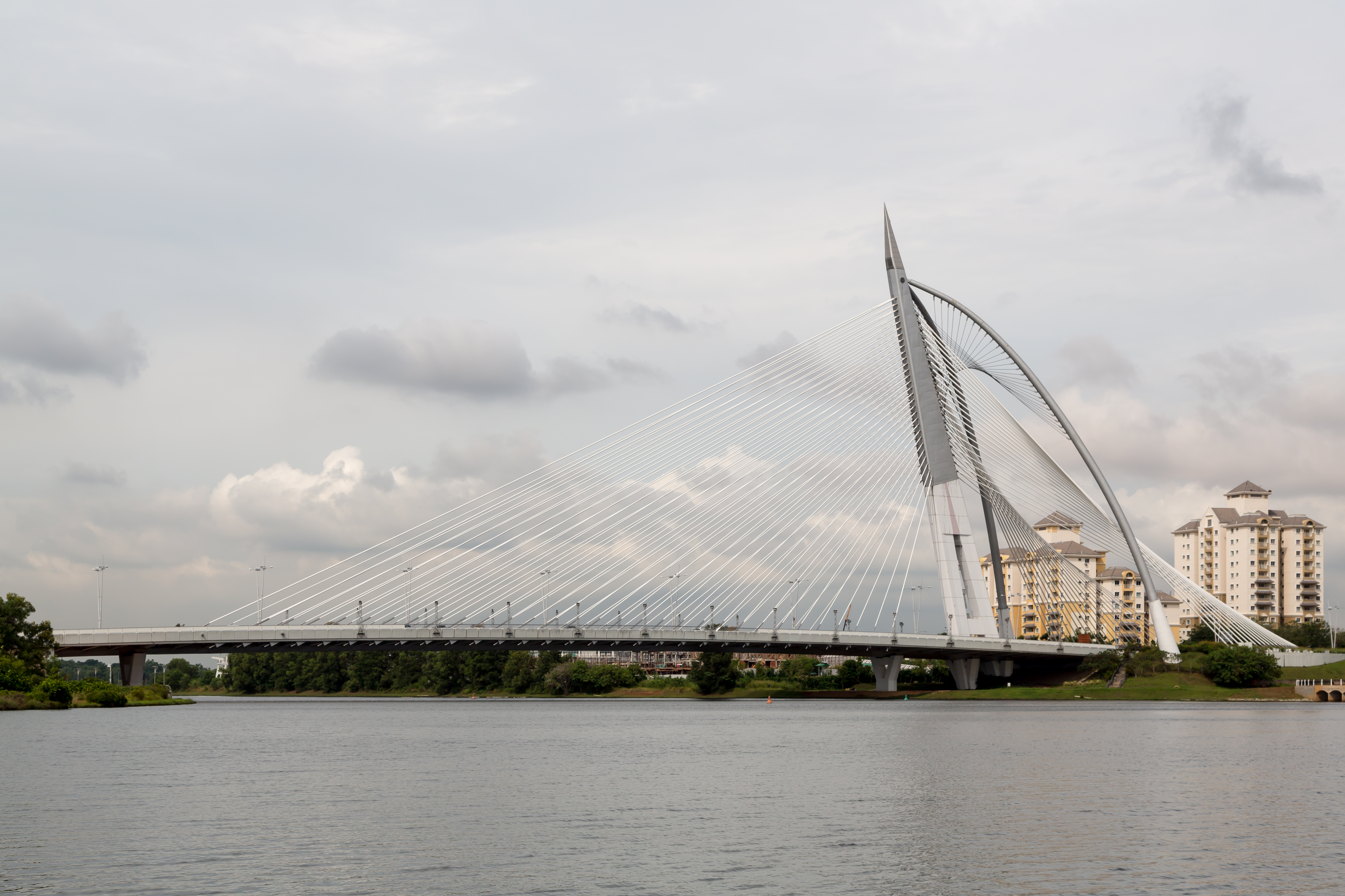 Putrajaya, Malaysia: Seri Wawasan Bridge (Jambatan Seri Wawasan)